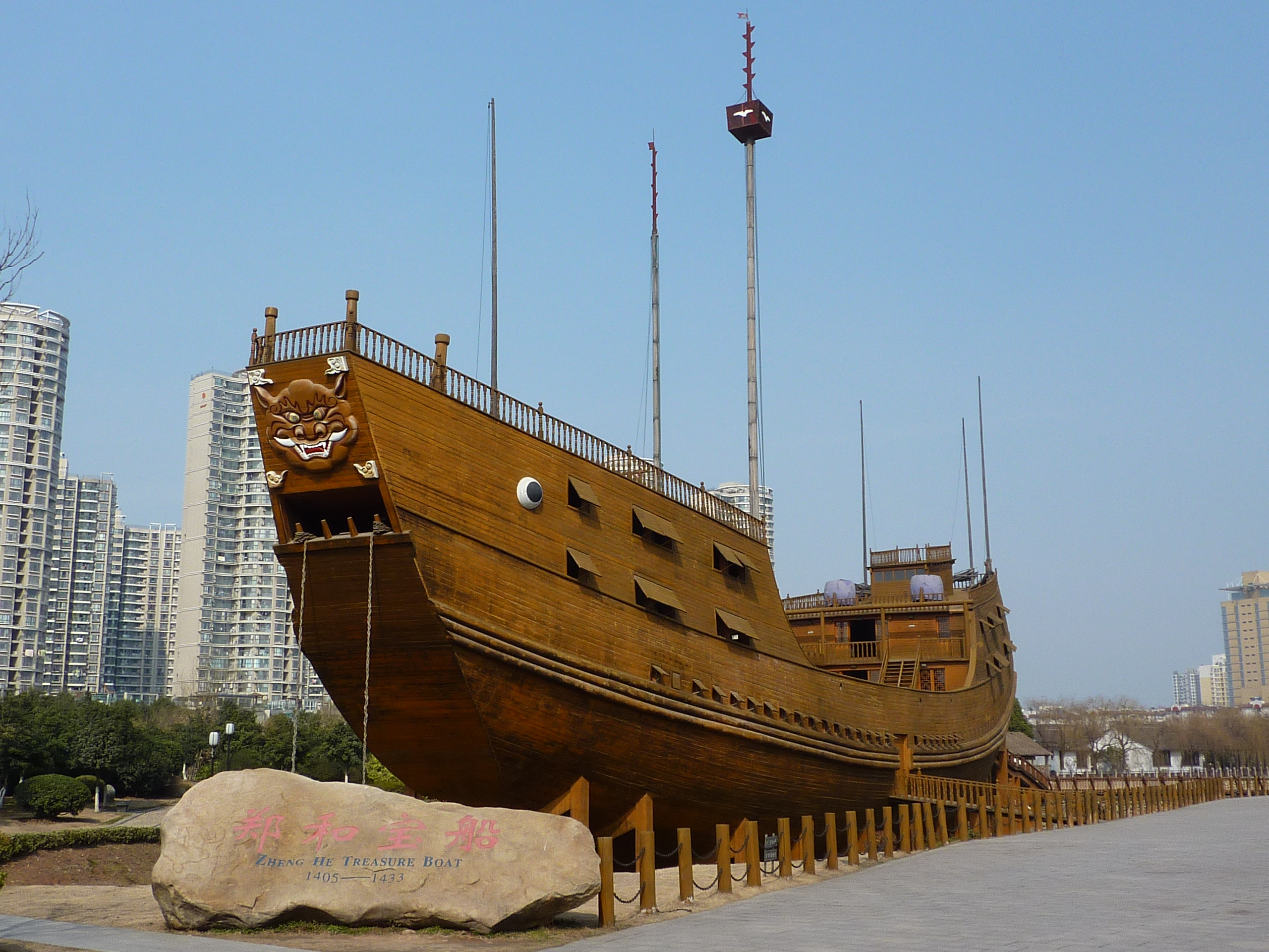 A full-size model of a "middle-sized treasure boat" (63.25 m long) of the Zheng He fleet at the Treasure Boat Shipyard site in Nanjing. Build ca. 2005 from concrete, lined with wooden planks.